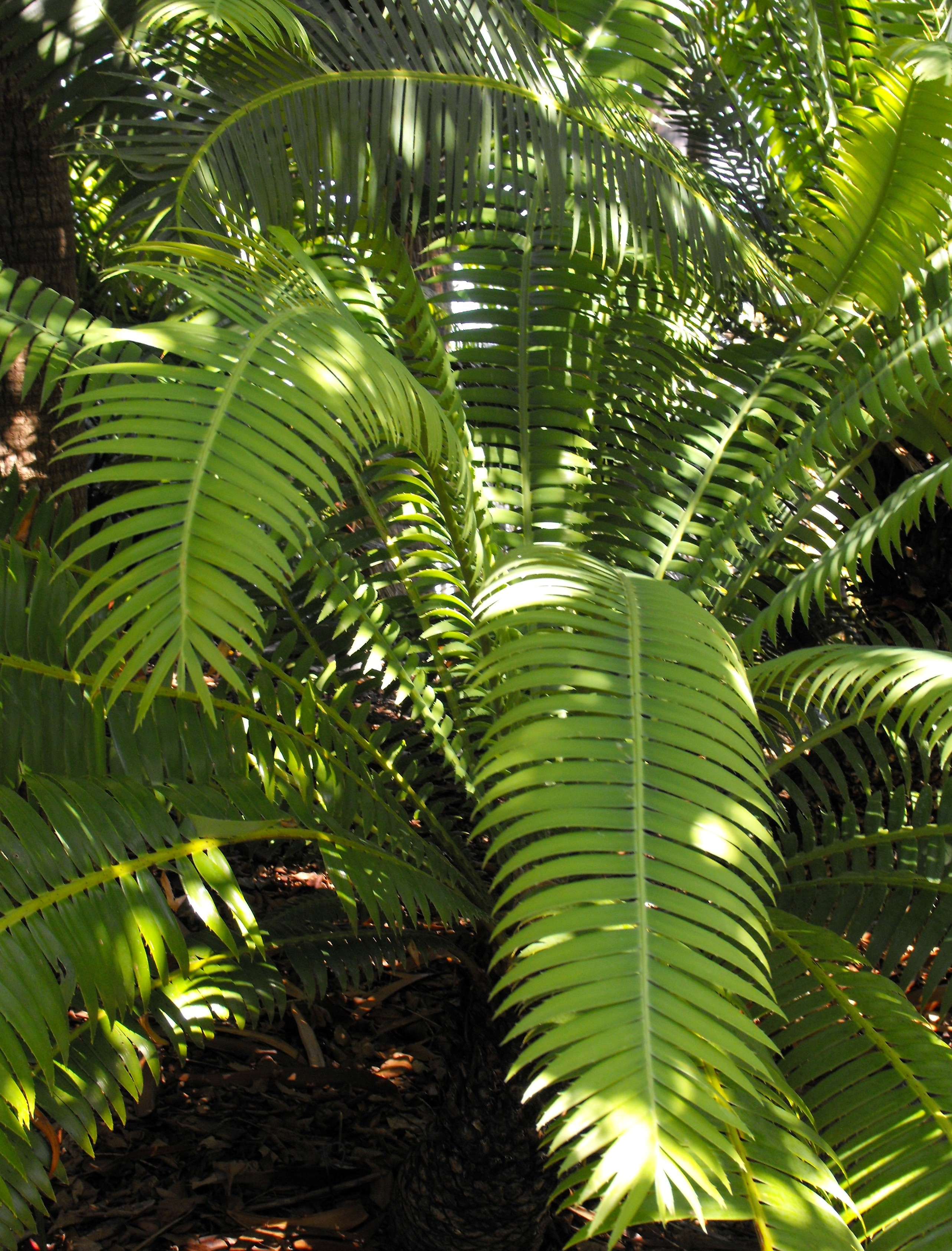 Dioon holmgrenii at the San Diego Zoo, California, USA. Identified by sign.